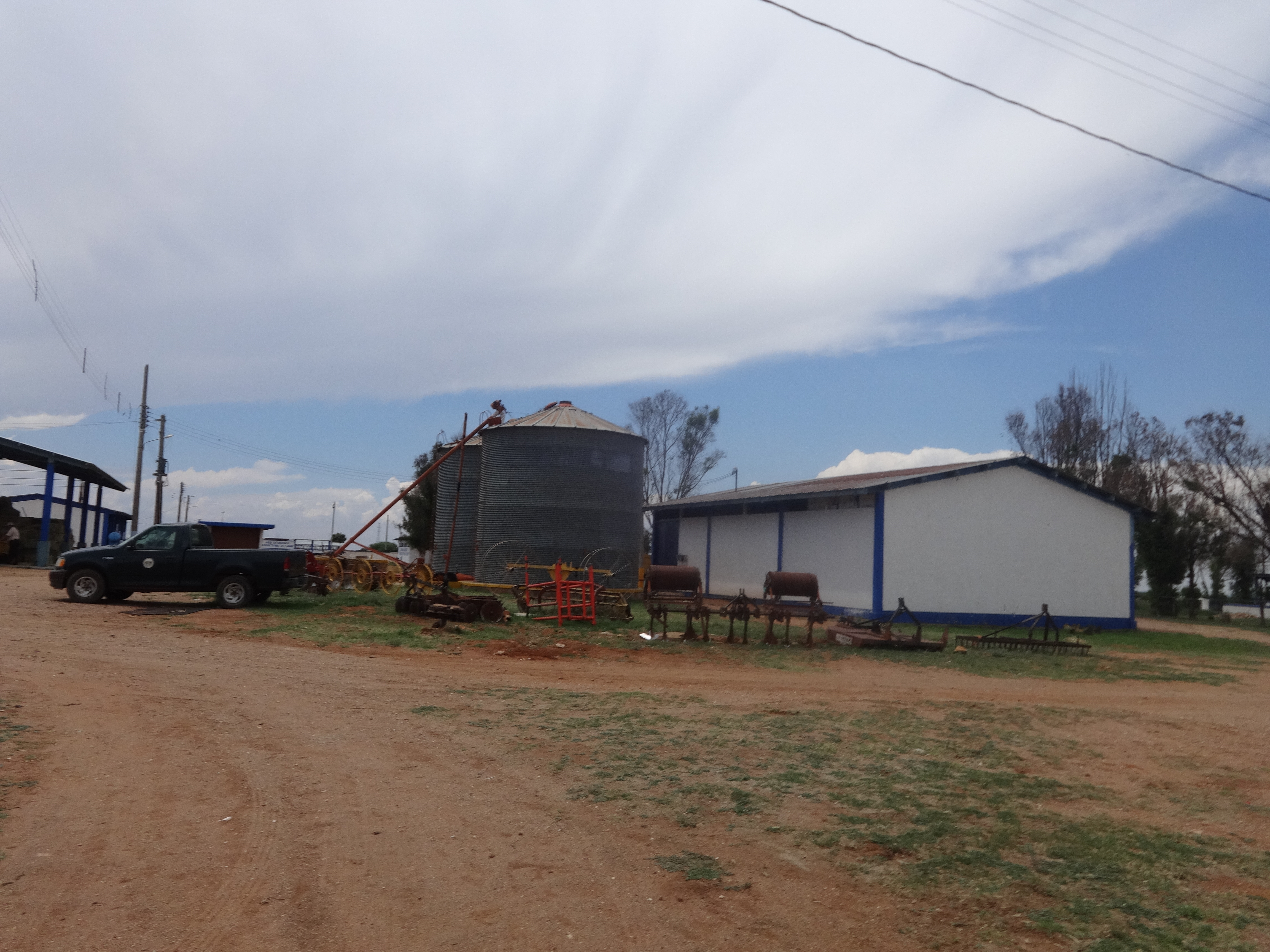 Agriculture and livestock post, Academic Area of Agricultural Sciences.